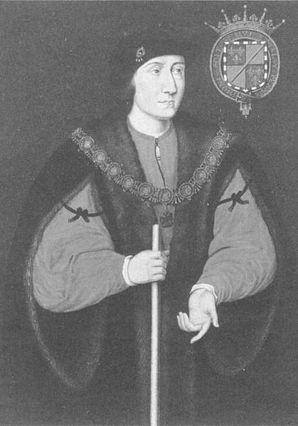 Portrait of Charles Somerset, 1st Earl of Worcester